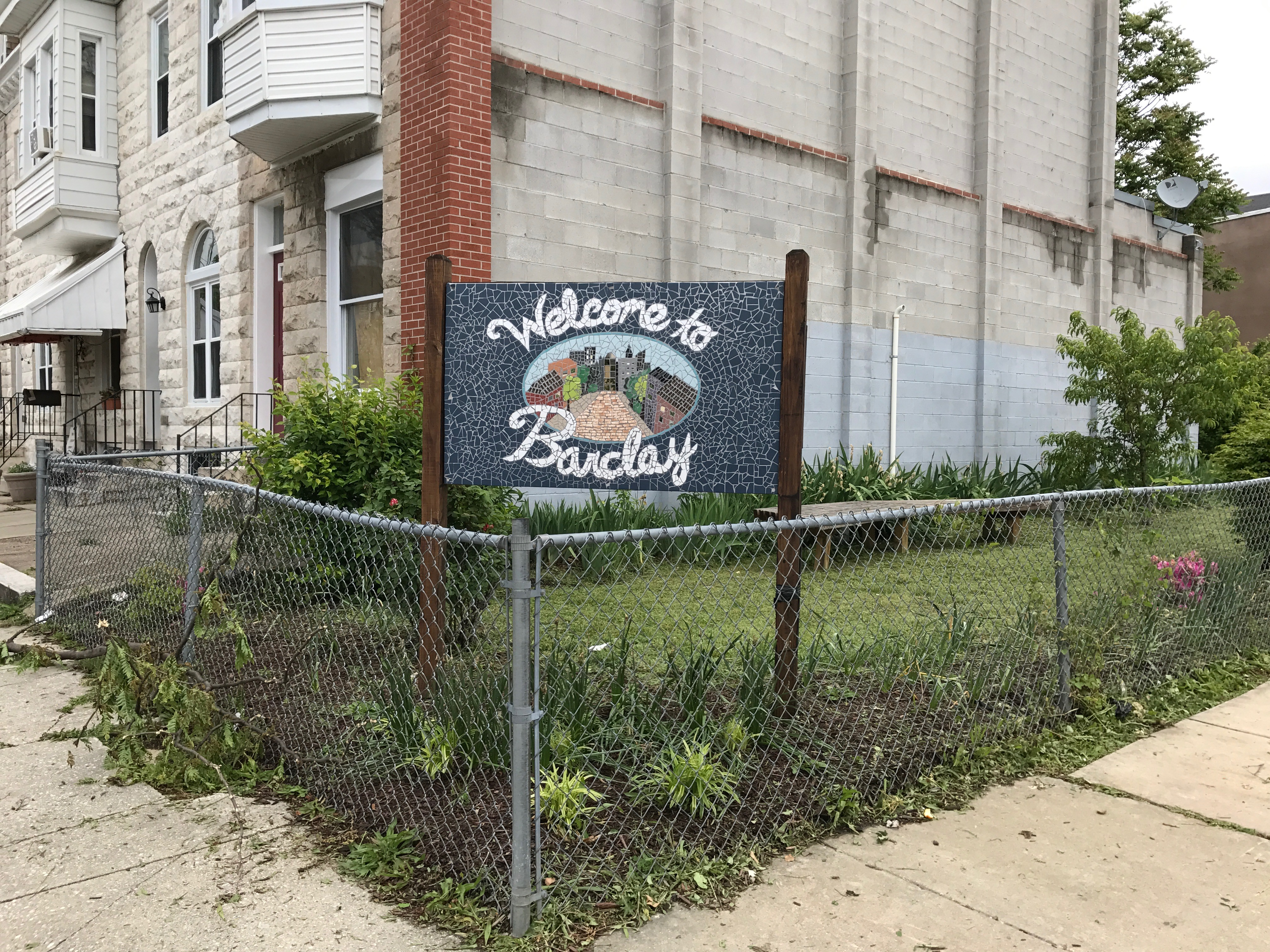 Photograph by Eli Pousson, 2017 May 13.